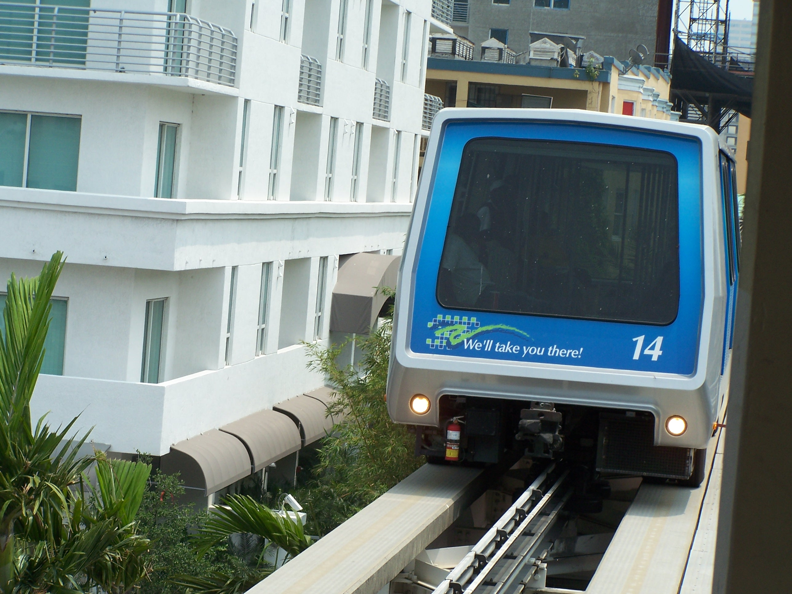 Miami Metromover.